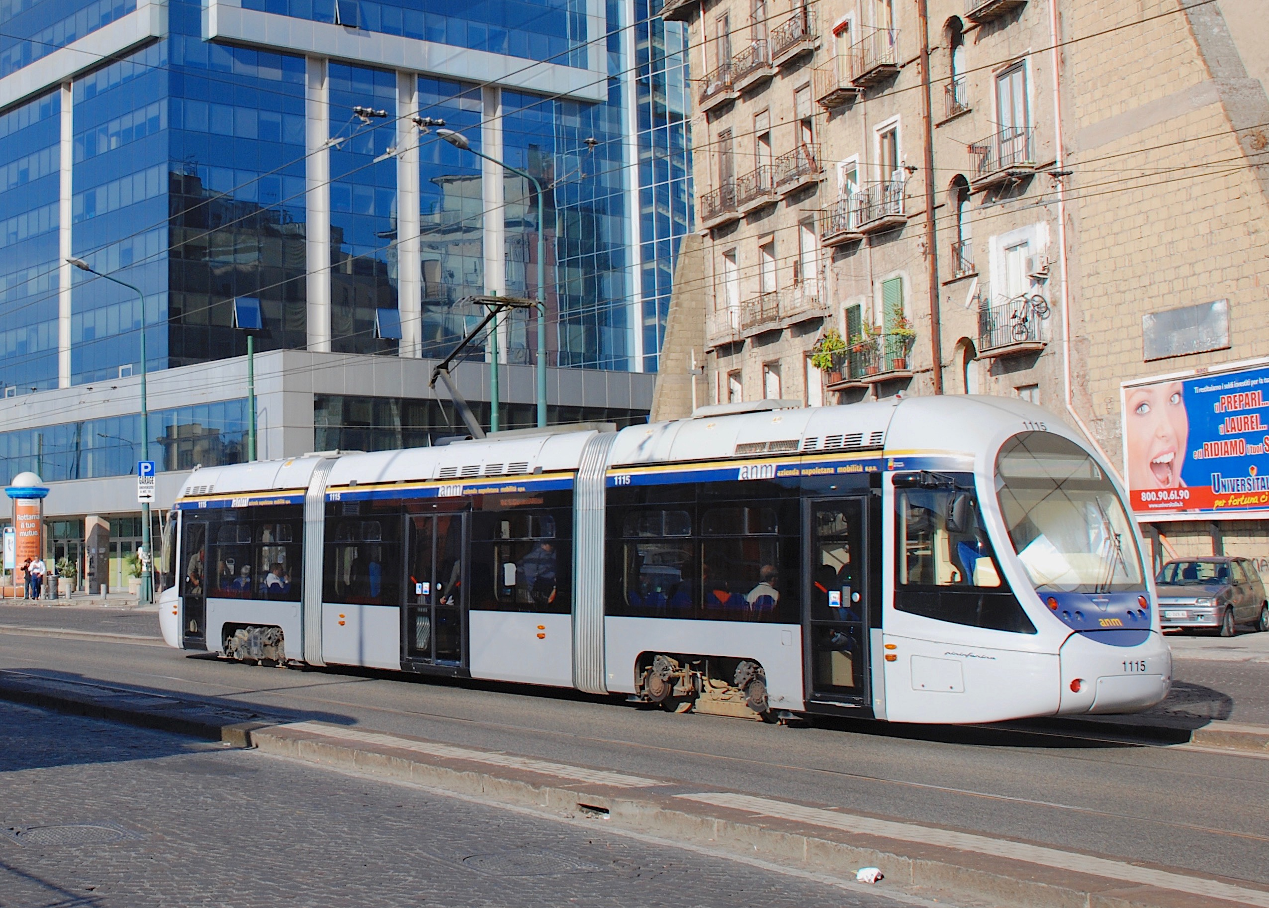 Tramcar 1115 of ANM (Naples/Napoli, Italy), an AnsaldoBreda Sirio, westbound on Via Nuova Marina near the "Università Orientale" stop in 2007. This is a "double-ended" Sirio model, with operating cabs at both ends, and in this photo the tram is moving to the left, so the operator was at the far end.